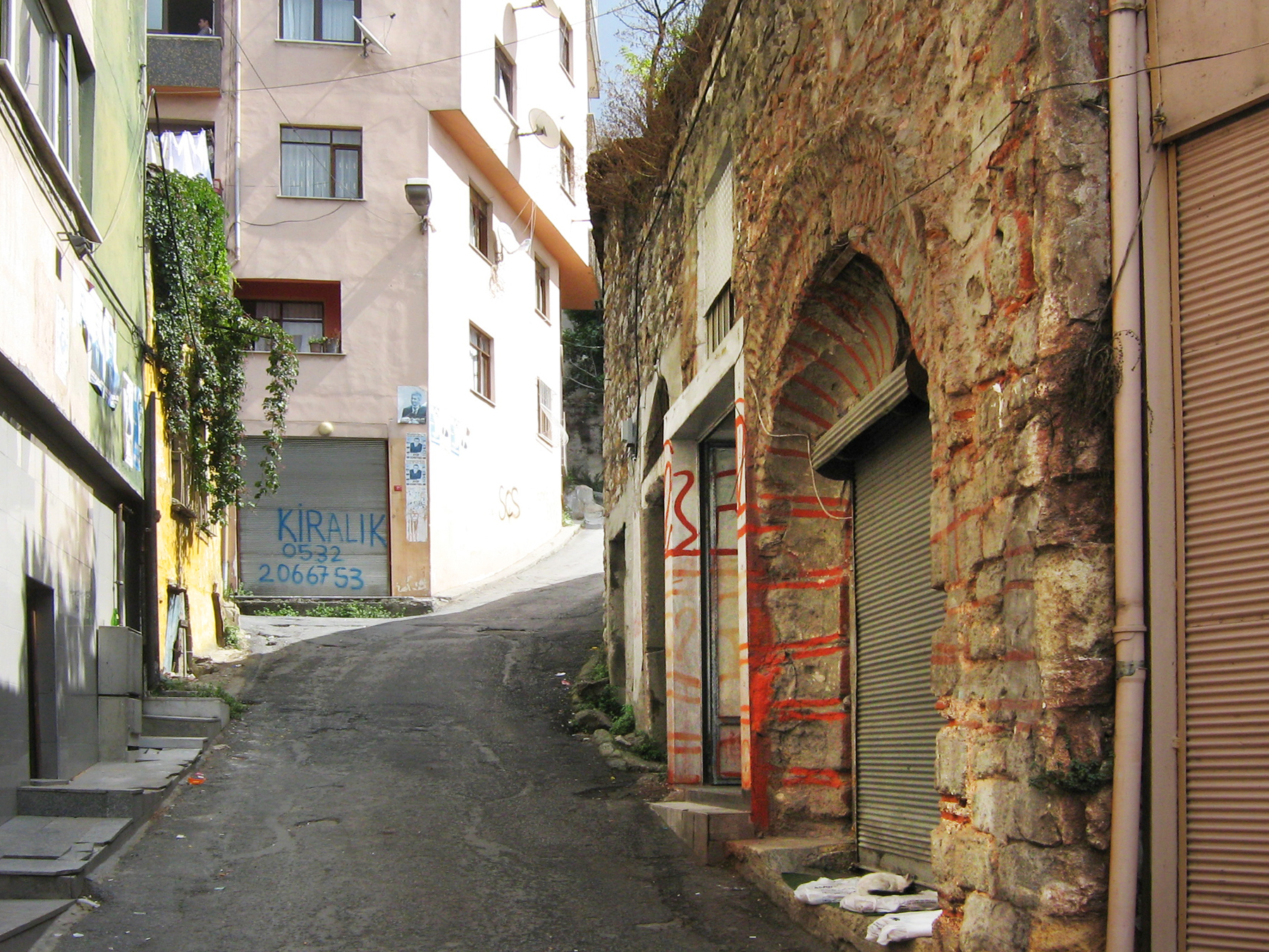 Street in Hasköy, Istanbul, Turkey. Mayor Synagogue (Turkish: Mayor Sinagogu) is the building on the right.